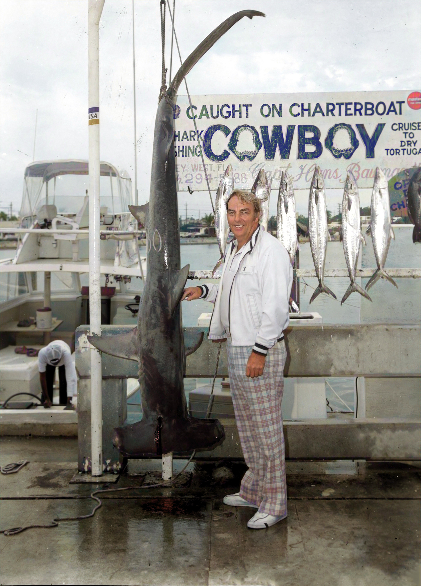 A hammerhead shark (Sphyrna mokarran) caught on the charter boat Cowboy. Photo from the Wil-Art Studio, gift of Angie Marine.